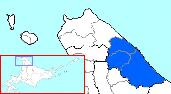 The location of Esashi District in Soya Subprefecture, Hokkaido Prefecture, Japan.